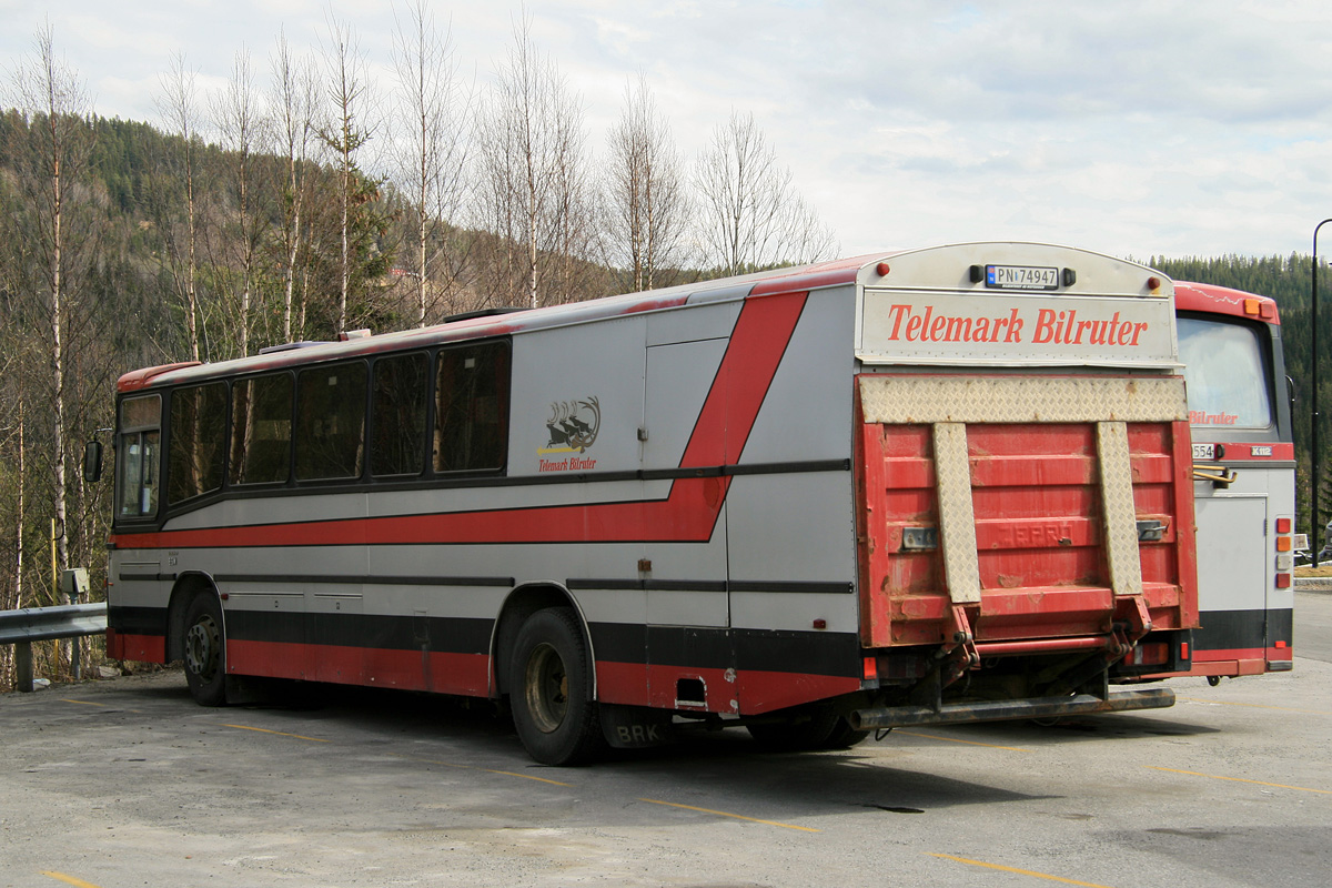 Volvo B9M-based "bruck" from Telemark Bilruter.